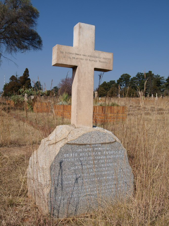 Captain David Reginald Younger's memorial stone at the Burgershoop Cemetary in Krugersdorp, SA.